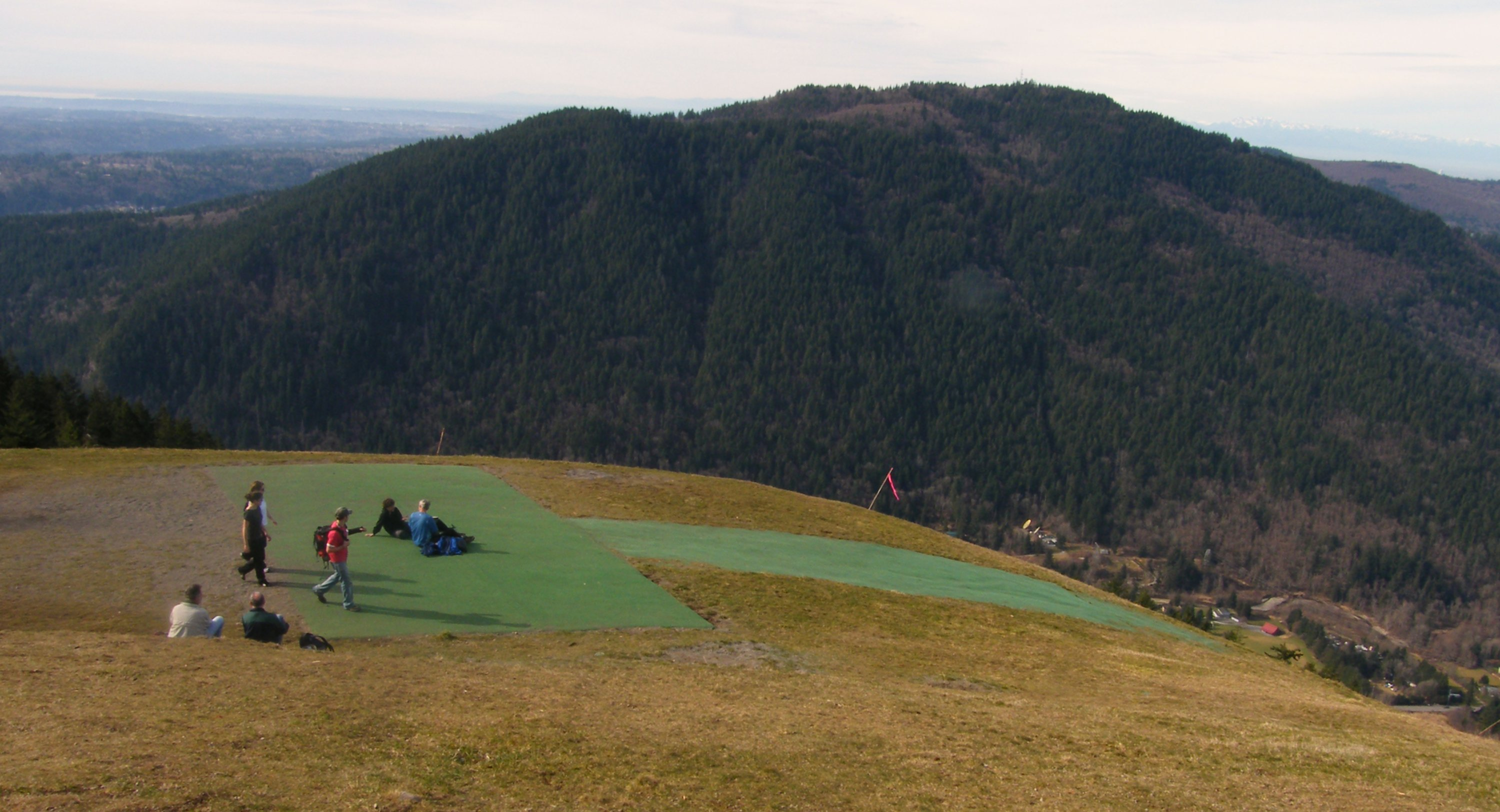 On Tiger Mountain, Washington, United States: the north paraglider takeoff site, with Squak Mountain in the background